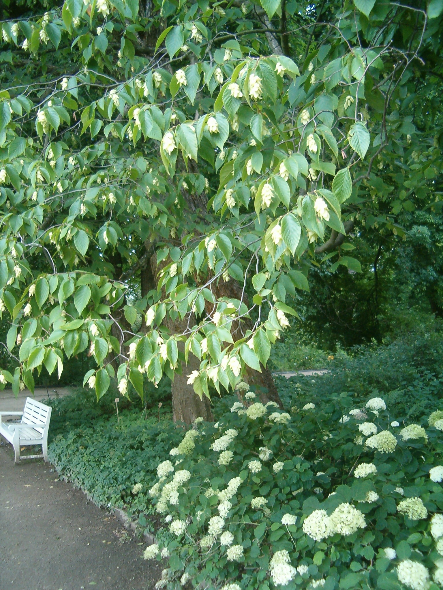 At Botanical Gardens Berlin-Dahlem Species Ostrya virginiana'